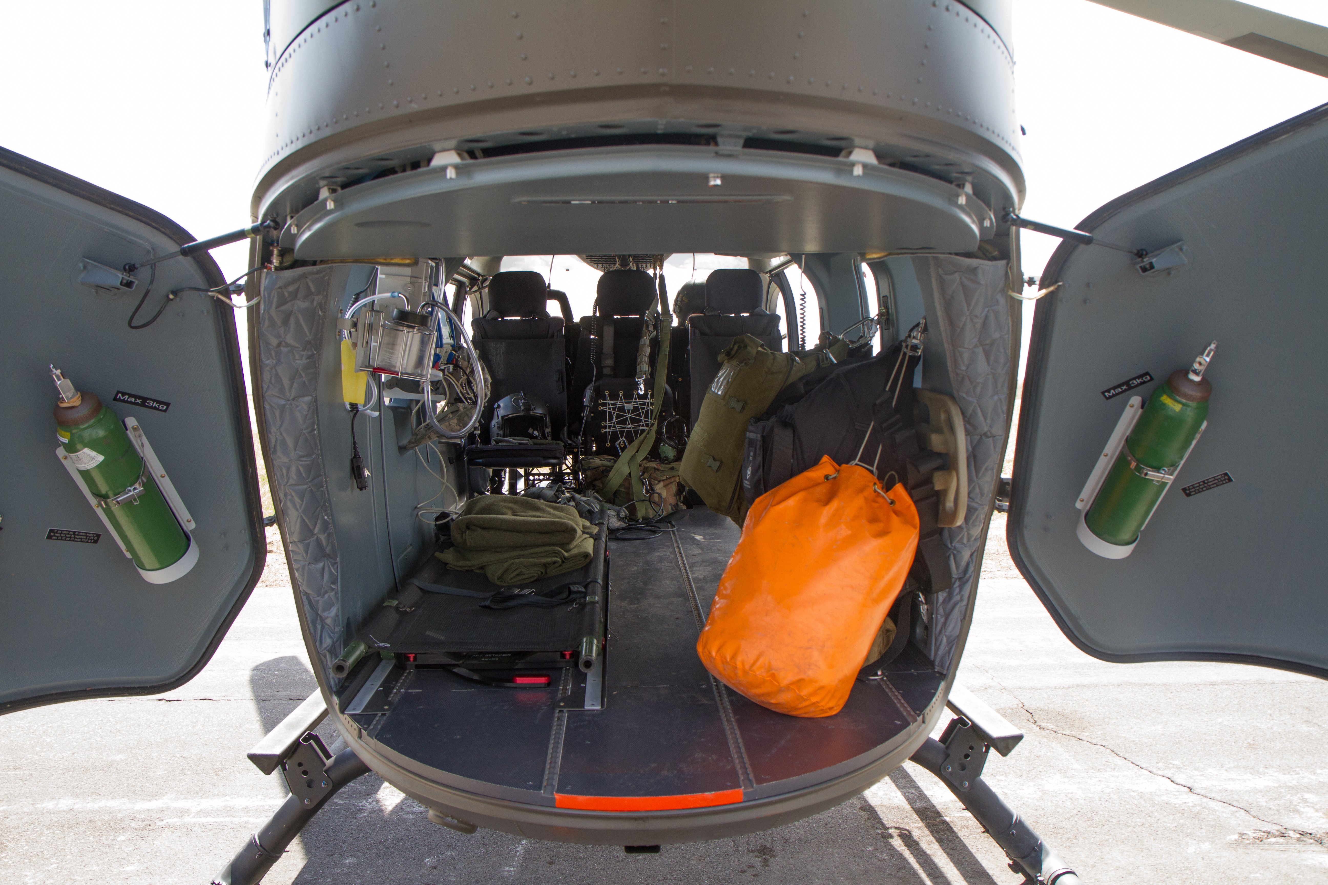 A UH-72 Lakota Helicopter is constructed for real-life medevac emergencies as part of exercise Maple Resolve at the Canadian Maneuver Training Center in Wainwright, Alberta, May 20, 2014. Senior leadership visited the Canadian Maneuver Training Center in Wainwright, Alberta, while Colorado Army National Guard aviation resources participated in Exercise Maple Resolve 2014 (EXMR14) from May 5 through June 1, 2014. Approximately 5,000 Canadian, British and U.S. troops are participating in the largest annual exercise of the Canadian armed forces in a culminating collective training event that ensures joint military readiness. (U.S. Army National Guard photo by Spc. Kristin Stoneback/Released)